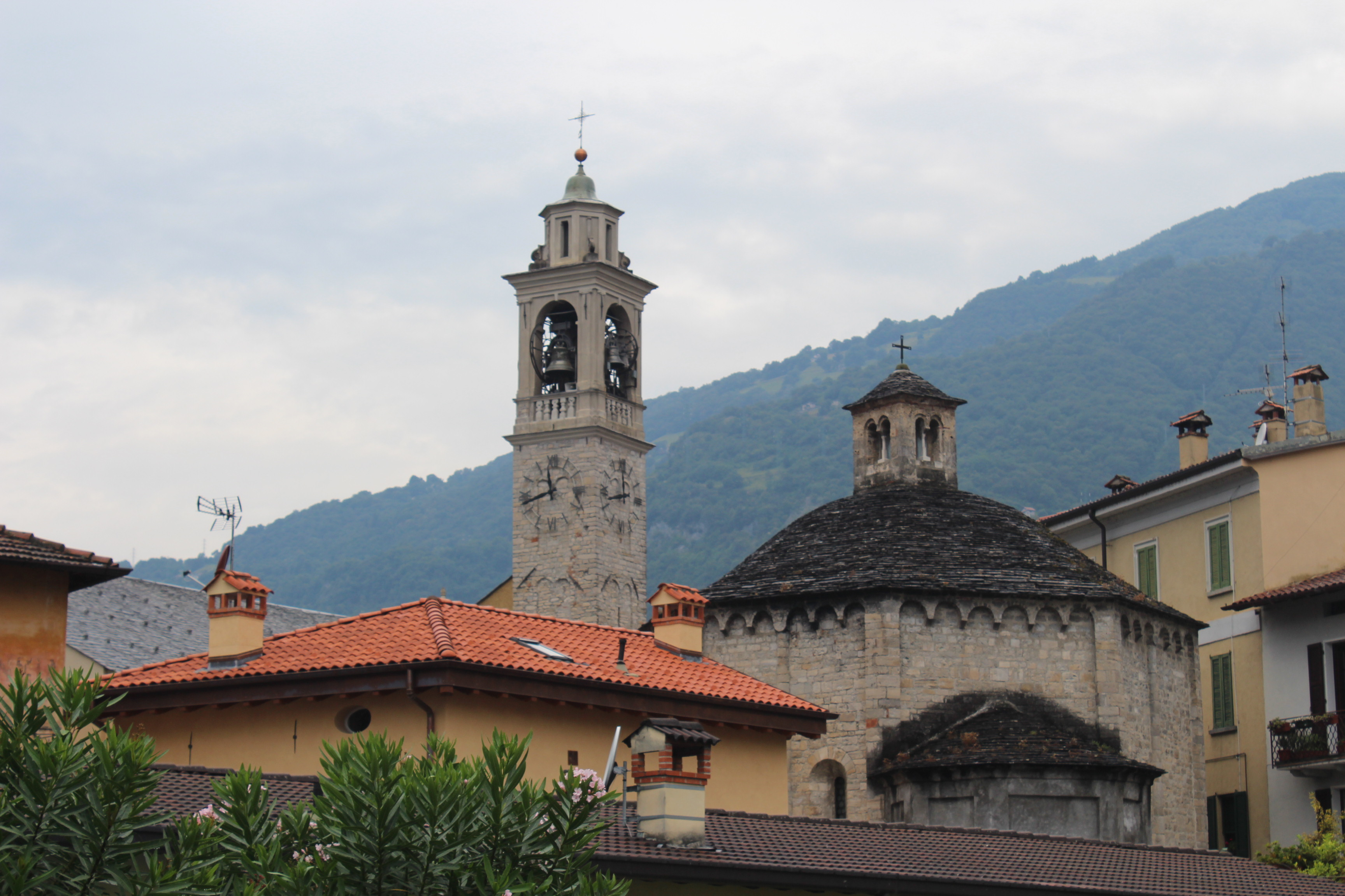 Lenno, Lake Como, Italy